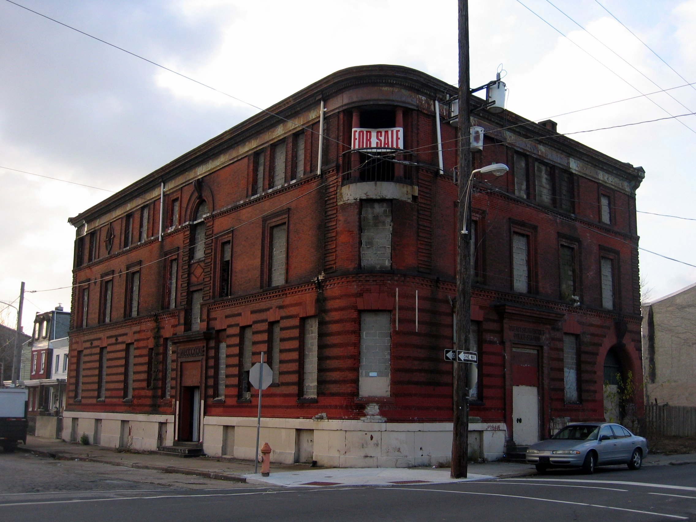 The 26th District Police and Patrol Station is located at 2136–2142 East Dauphin Street. This National Register of Historic Places nomination for this property is available here.